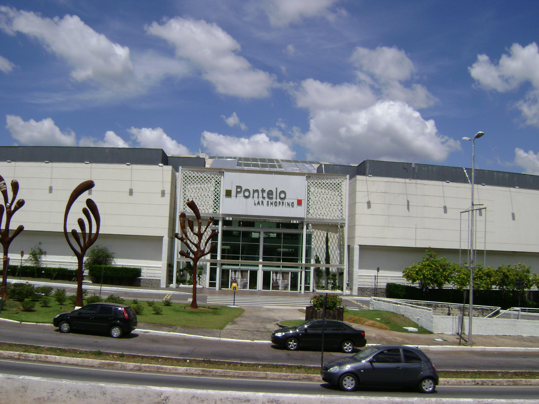 Entrada do Ponteio Lar Shopping, em Belo Horizonte.